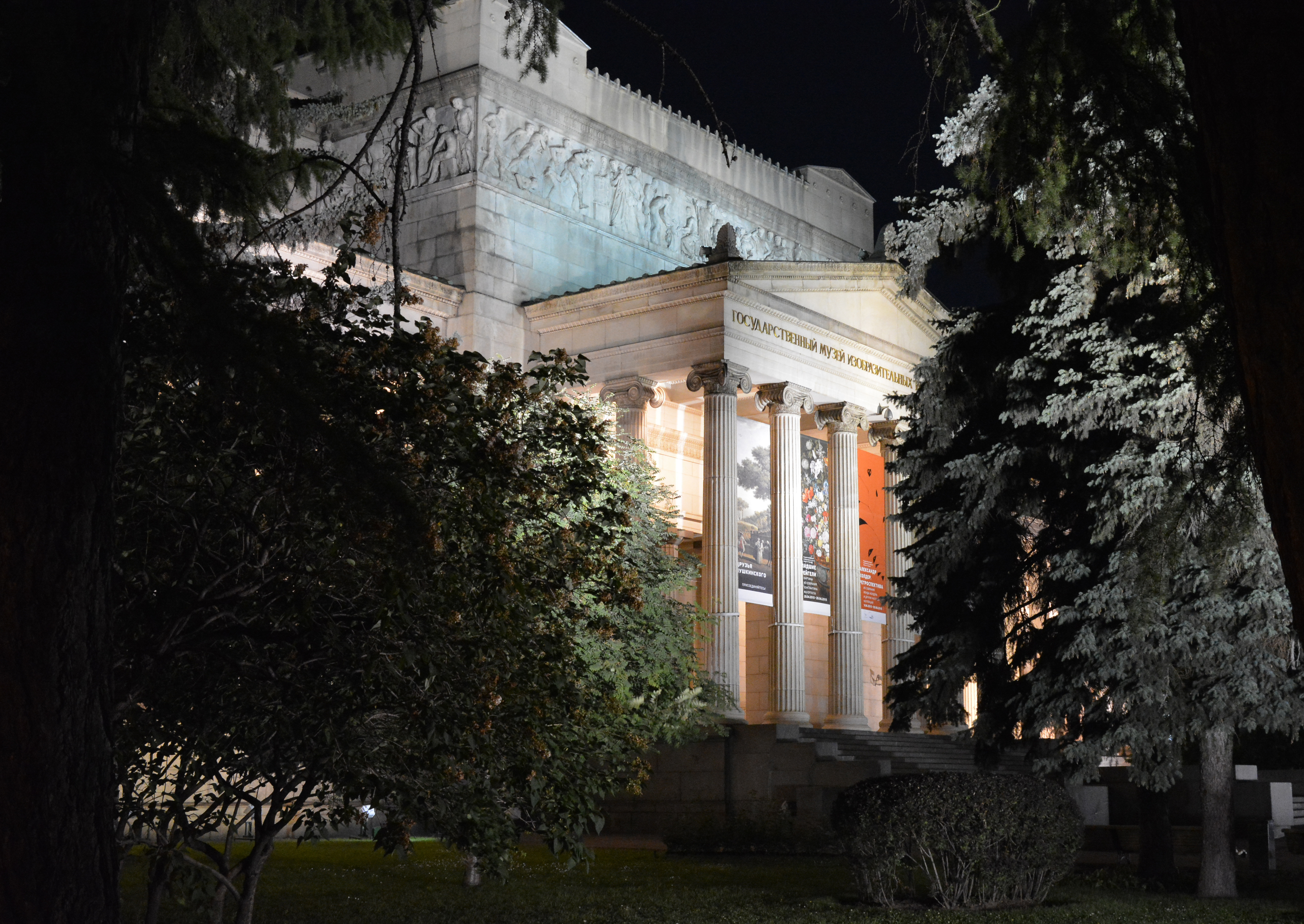 Pushkin Museum of Fine Arts in night light.